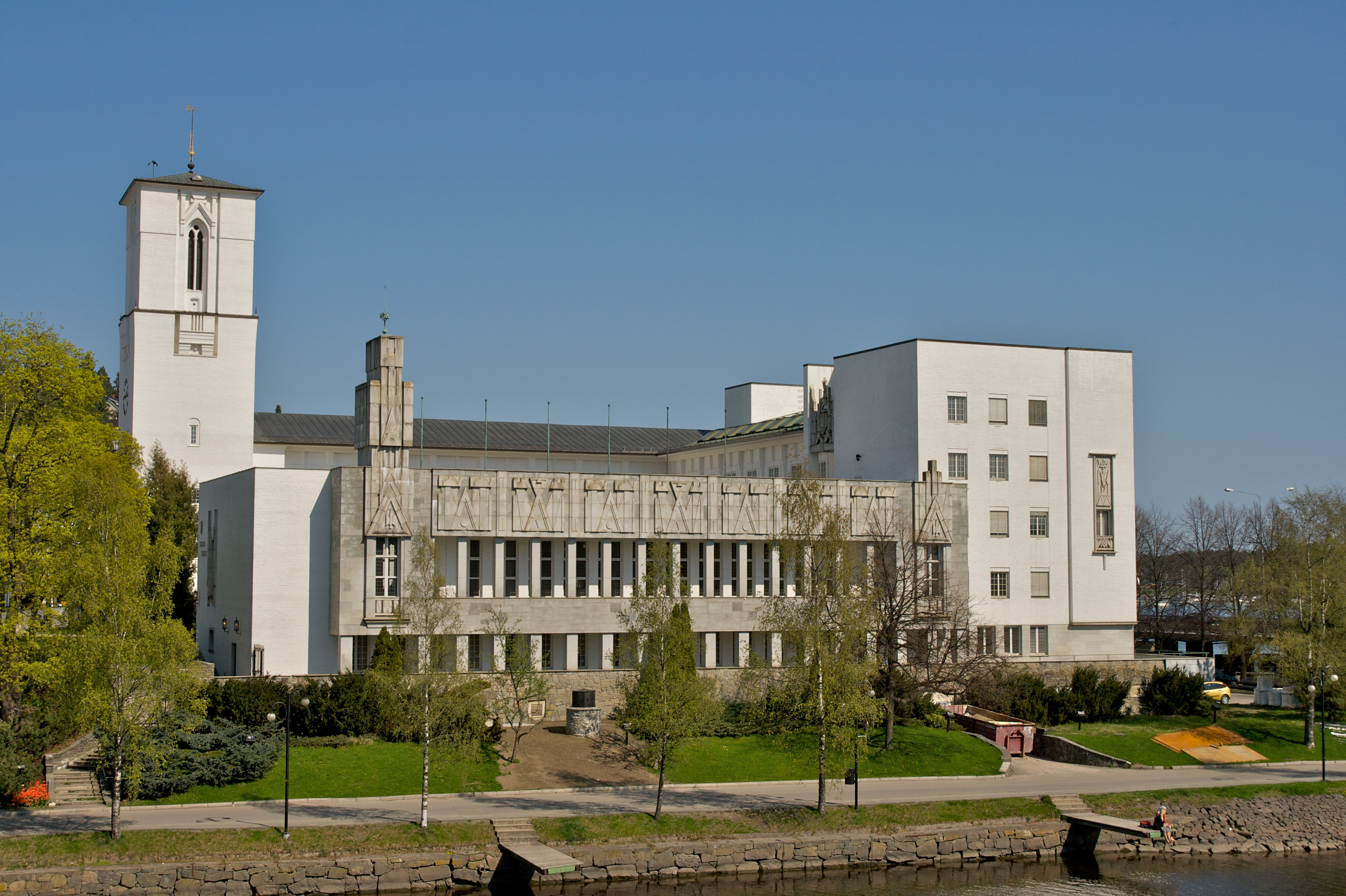 Bærum City Hall, Norway.